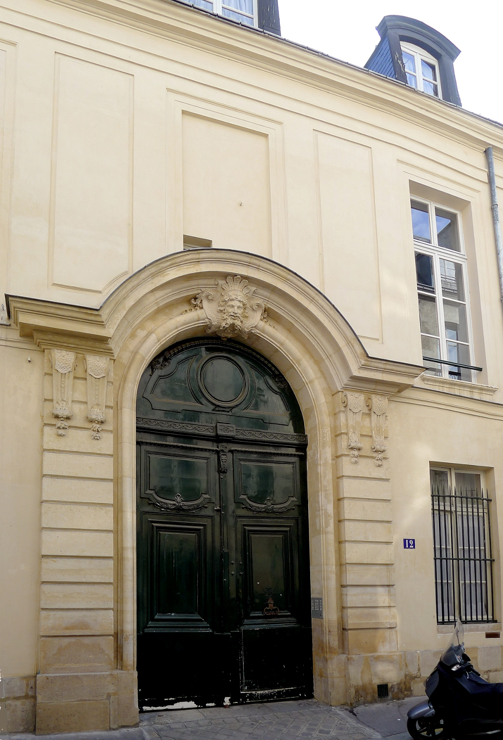 Charles V street, n°12 - Paris